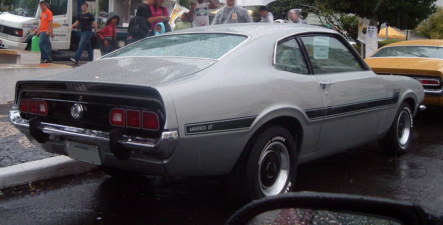 1978 Ford Maverick GT, Brazilian-built. The pre-1977 taillights can be seen on the Maverick in front.